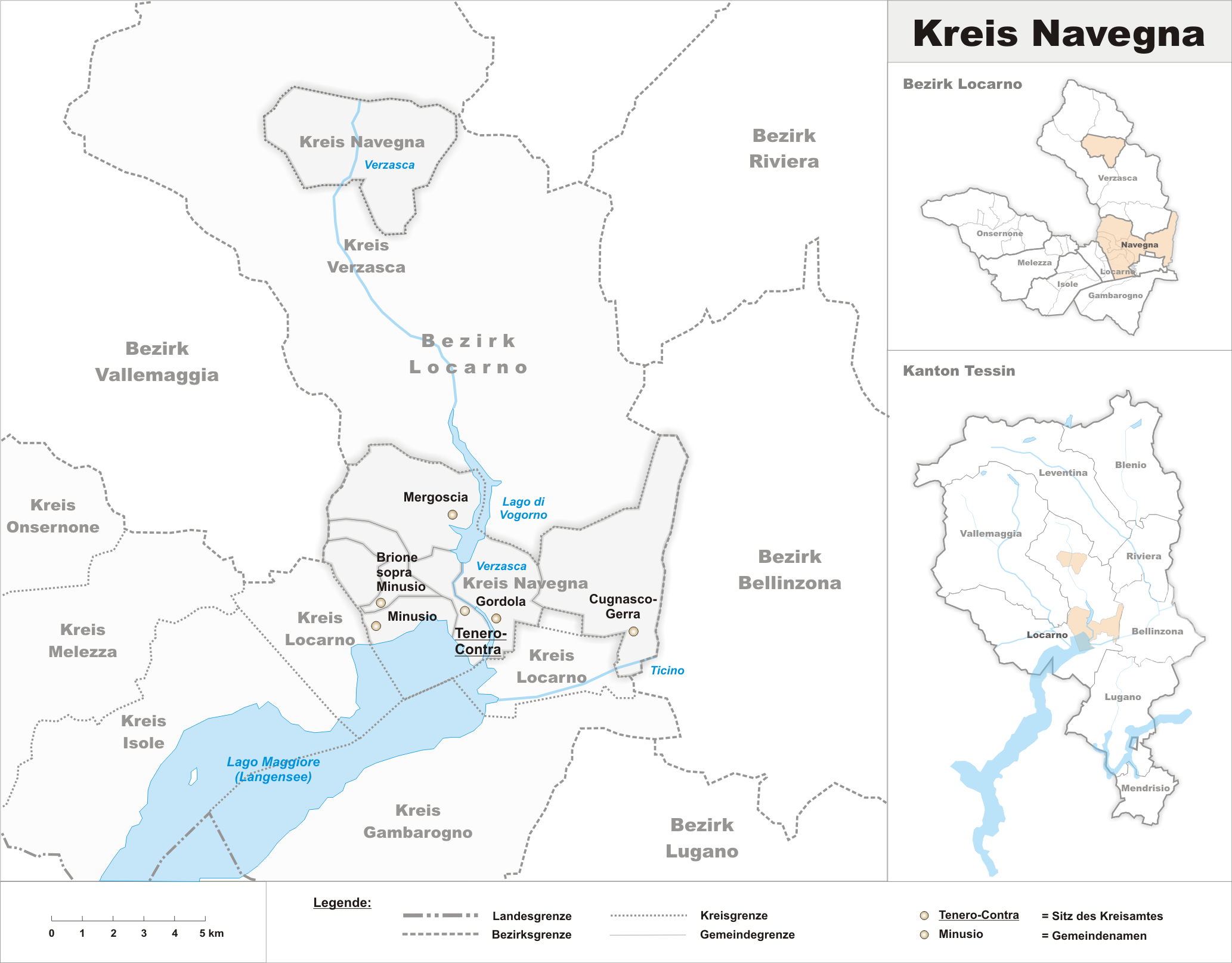 Municipalities in the circle of Navegna